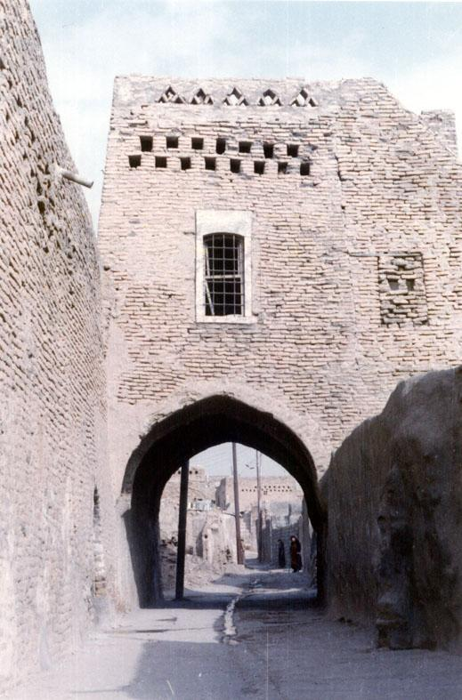 Qaṭartā d'Beth īnā. The old center of the Assyrian town of Baghdeda, in the Ninewa region of Iraq. An example of brick constructions.